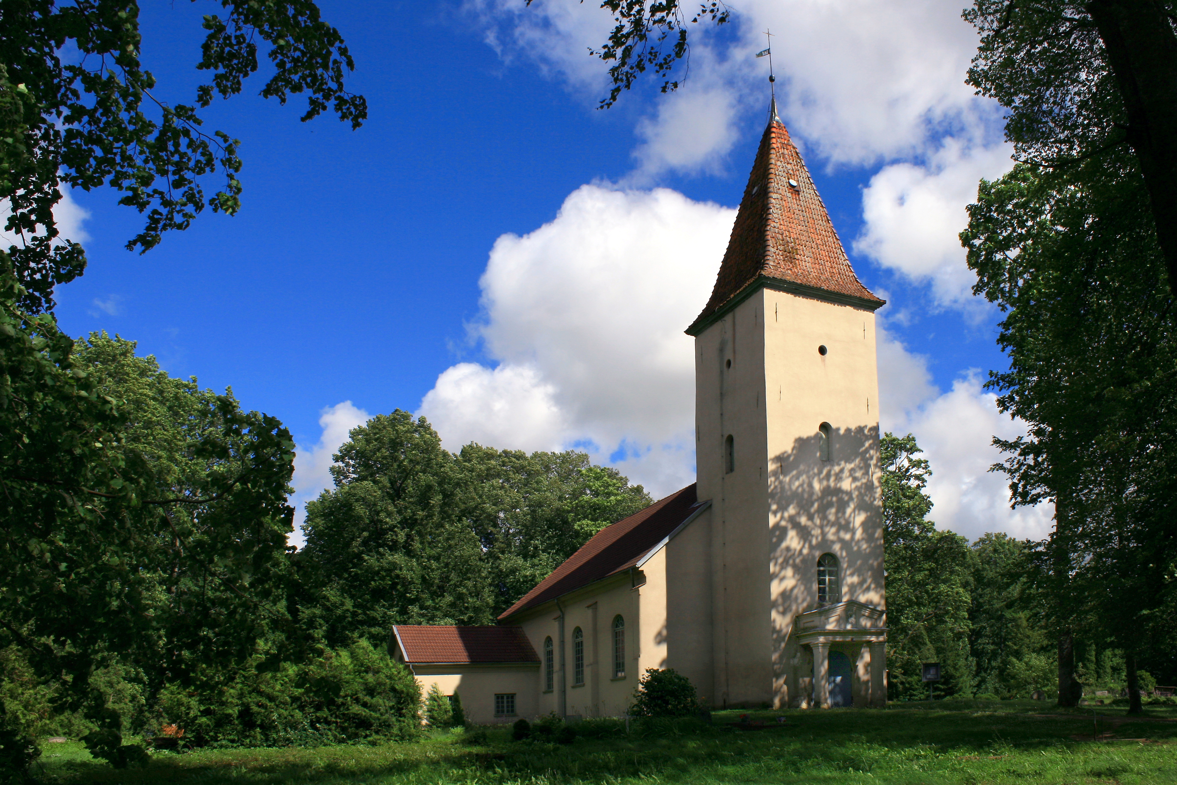 Vērgale Evangelical Lutheran ChurchLatviešu: Vērgales evaņģēliski luteriskā baznīca